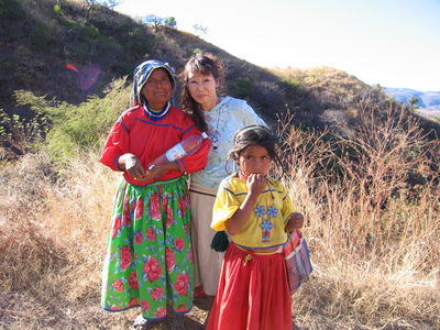 Photo of Wixarika (Huichol) woman and child on road near Tuxpan de Bolaños